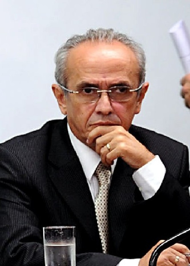 Senador do Brasil Cícero Lucena (PB)